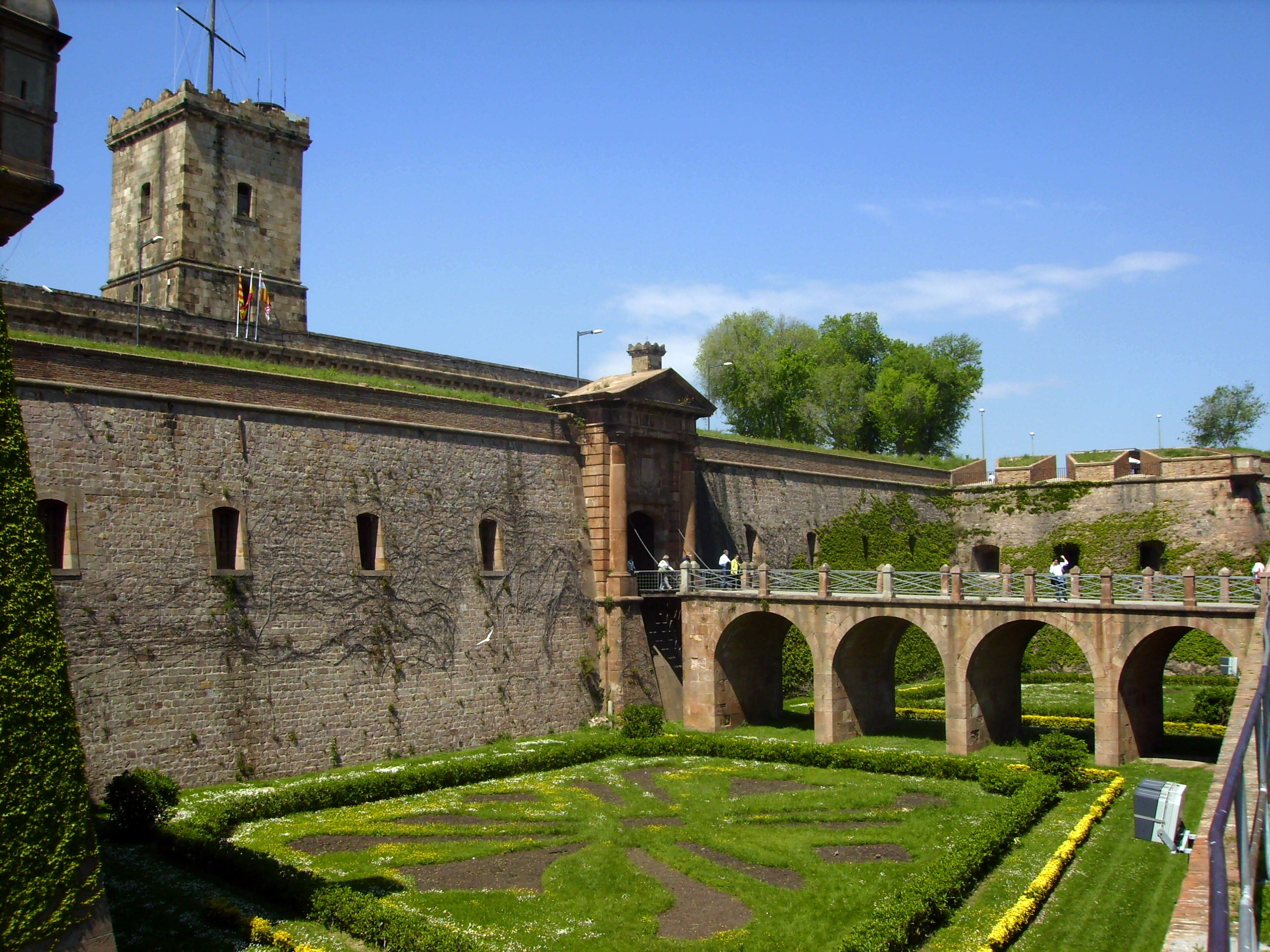 Montjuïc castle in Barcelona (Catalonia). See also: Castles in Spain.